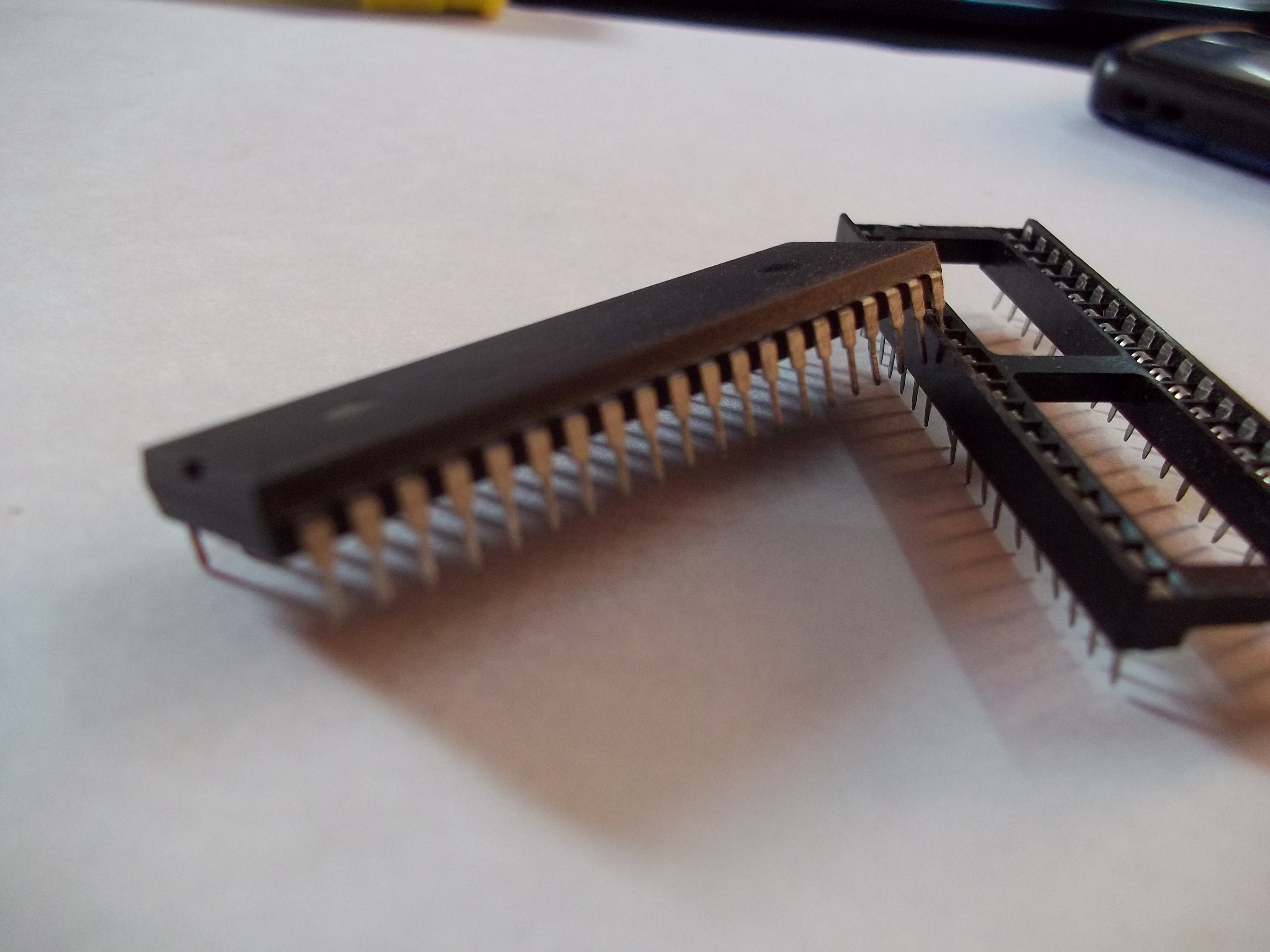 USB supported microcontroller for USB Interface device boards, Its a PIC18F4550 Microcontroller it is one of the most favoured microcontroller by hobbyists.